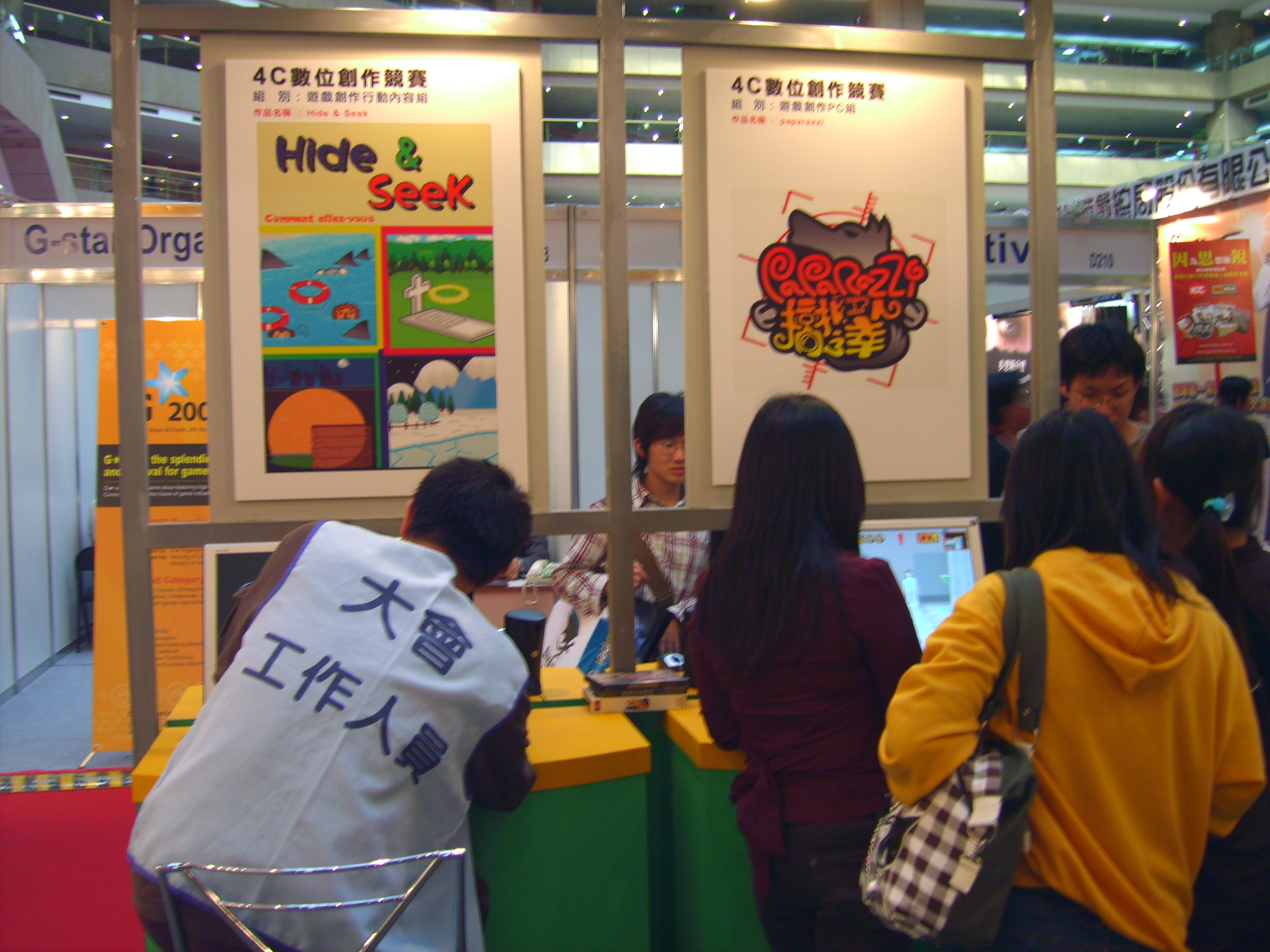 2007 Taipei Game Show: 4C Digital Contents Competition Pavilion.